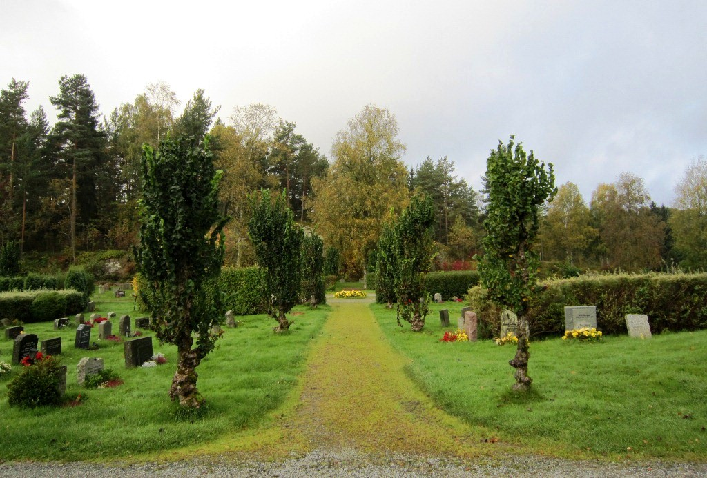 Kolbotn cemetery